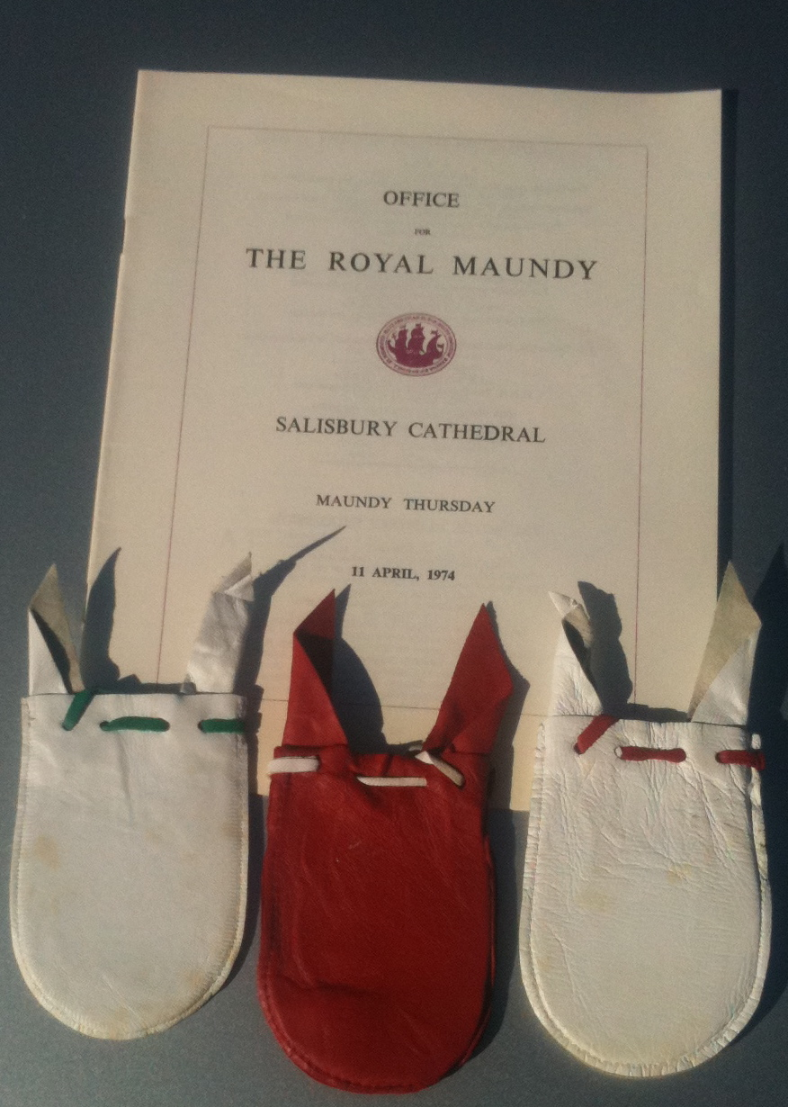 three Maundy purses; an order of service for the 1974 service